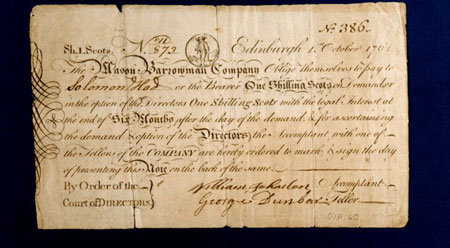 Banknote issued by a private company. The value of this note is maintained by a payment promise. See free banking. This note contain an option clause; the directors can decide not to redeem the note by demand, but six month later paying interest in this period.